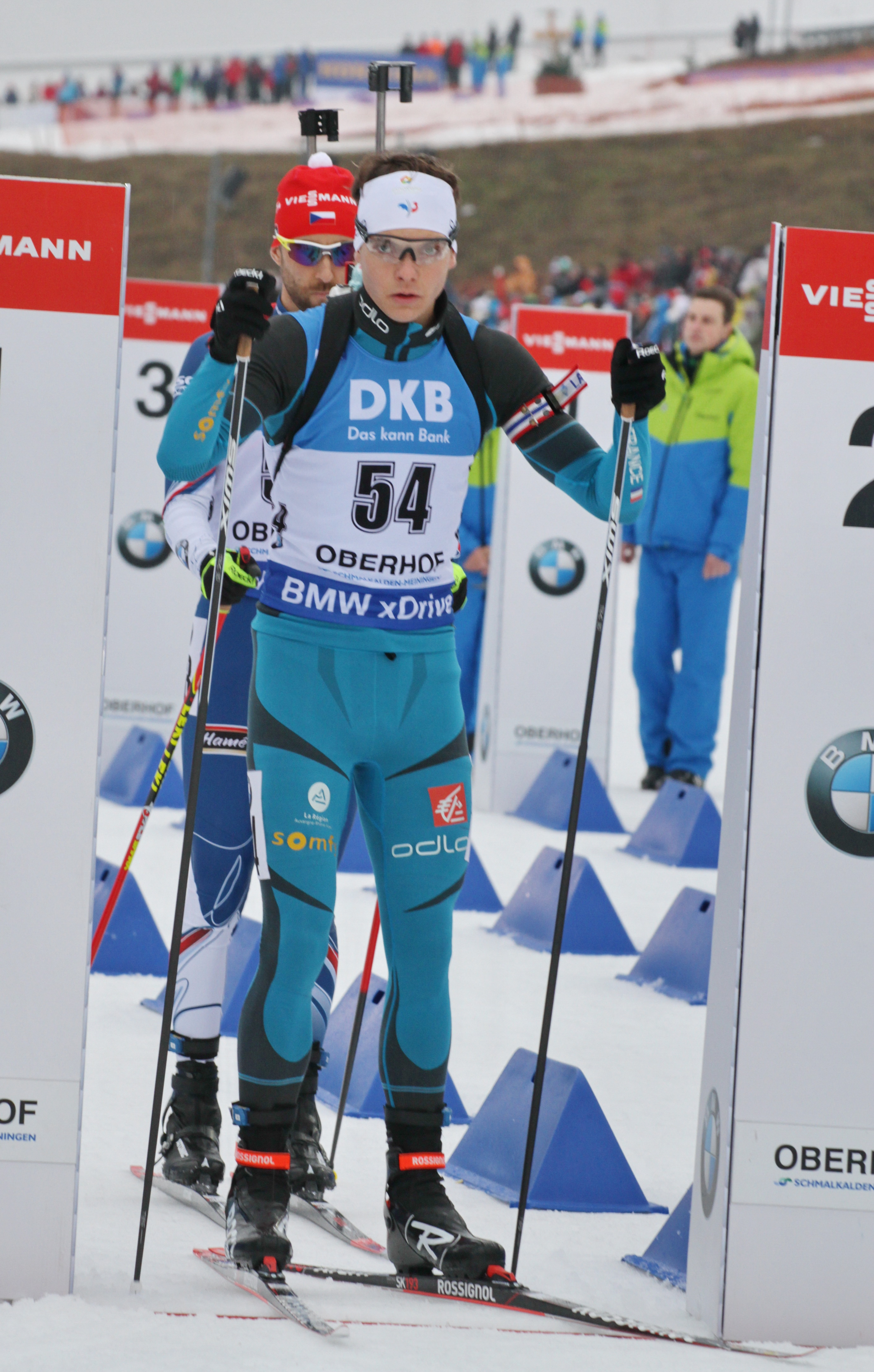 2018 Oberhof Biathlon World Cup - Pursuit Men